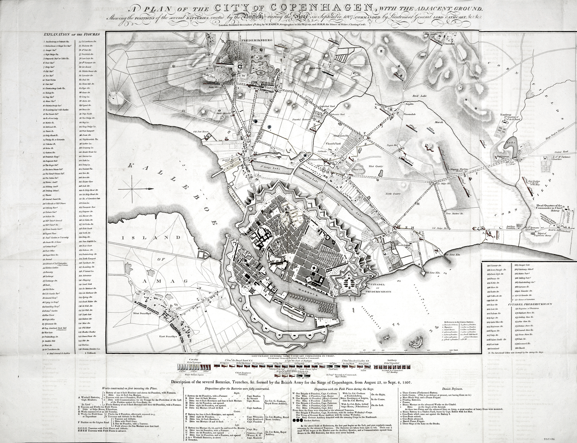 A detailed topographical map of Copenhagen and its surroundings showing the layout of the city and the British positions during the siege which lasted from 23 August to 6 September 1807. The siege of Copenhagen was also known as the Second Battle of Copenhagen, or, the Bombardment of Copenhagen. During the siege, Copenhagen was burnt by an attack in which the British used over 14,000 missiles, including about 300 Congreve Rockets. The result of the siege was that the Danish navy surrendered to the British. From the collection of military and naval maps and prints of George III (1738-1820)